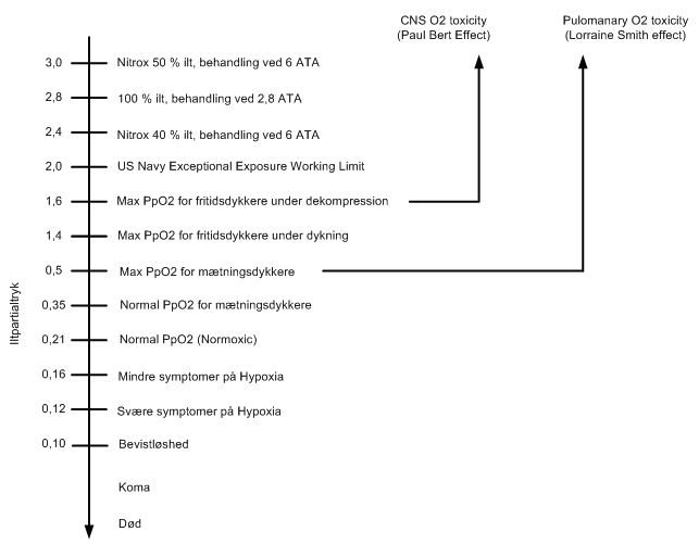 Illustration of various oxygenpartialpressures and limits for use in diving. Nota that text is in Danish.